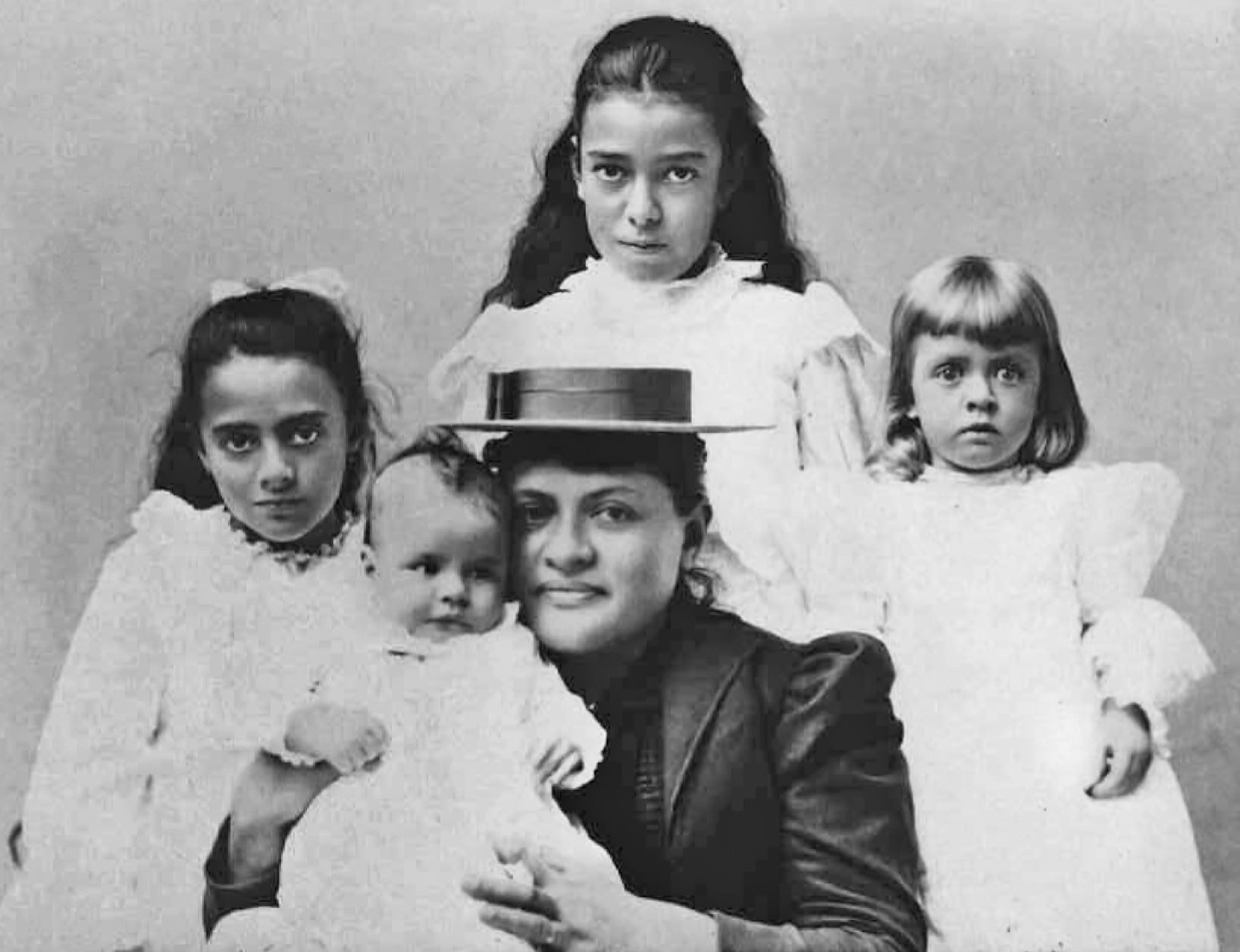 Abigail Kuaihelani Maipinepine Bright (seated, center, 1859–1908) married Irish-born Hawaiian industrialist James Campbell, who became the second-largest landowner in the Territory of Hawaii. Her four daughters here are: Alice Kamokila (left, 1884–1971), Abigail Wahiʻikaʻahuʻula (standing, 1882–1945), who married Prince David Kawānanakoa and became a politcal leader, Ethel Muriel (right, 1890-1951) and Royalist (center, 1893-1896).